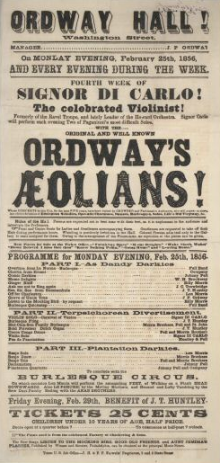 Ordway Hall! Washington Street. Manager--J.P. Ordway On Monday evening, February 25th, 1856, and every evening during the week. Fourth week of Signor Di Carlo! The celebrated violinist! ... with the original and well known Ordway's Aeolians! ... Boston